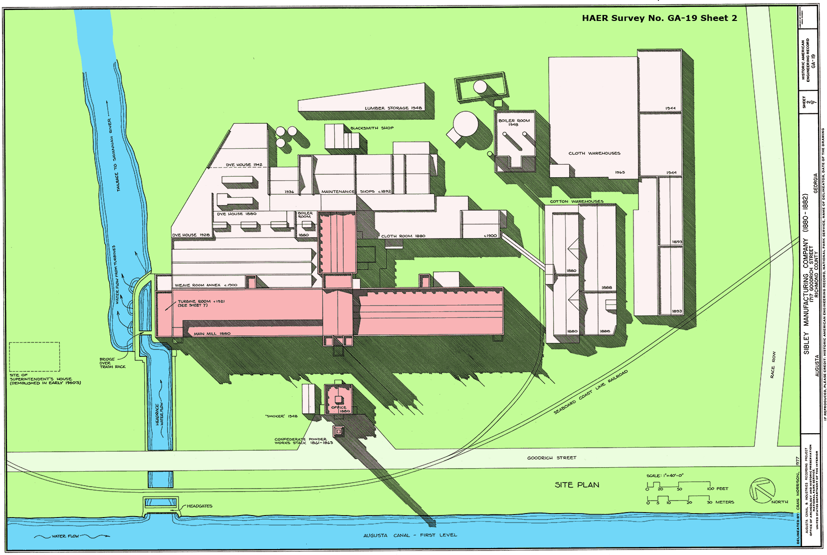 Sibley Mill Site Plan, in the City of Augusta, Georgia at 1717 Goodrich St. Sheet 2 of 7 of drawings accompanying Historical American Engineering Record Survey Number GA-19 ca. 1977, non-creatively colorized by the submitter. Retrieved from Library of Congress, click on the link "7 drawings" and then the "Sheet 2" thumbnail.